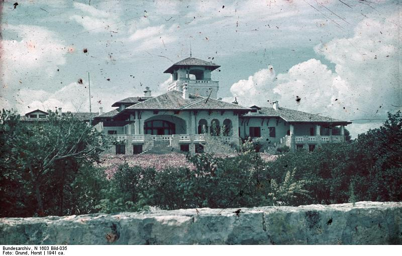 Royal summer residence of Carol II in Mamaia